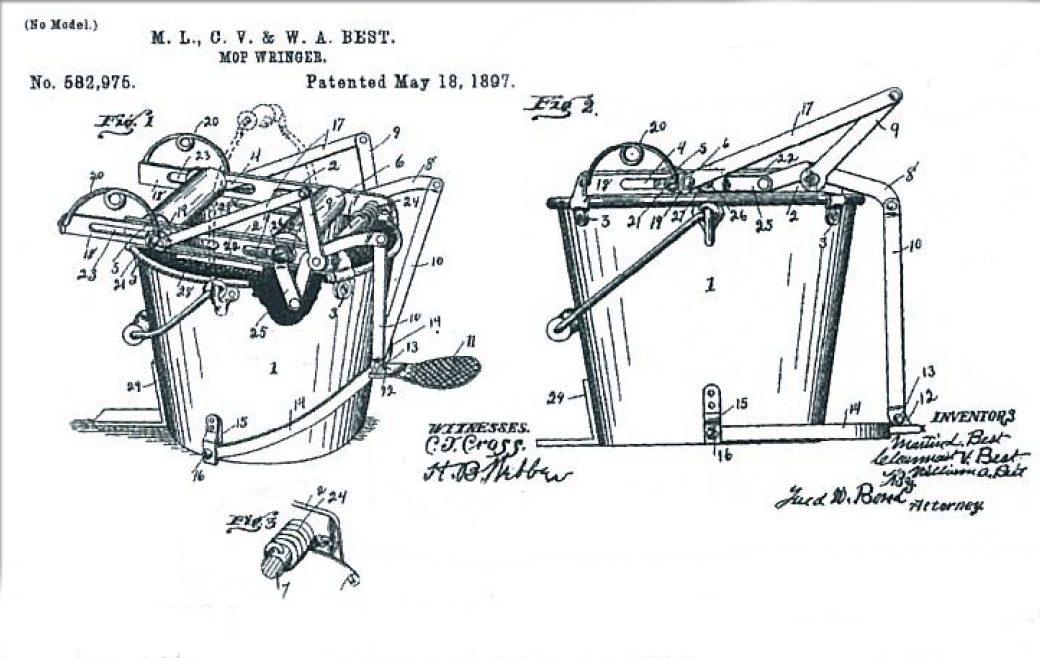 Brothers L.Best & M.Best patent for a Mop wringer from 18, may,1897